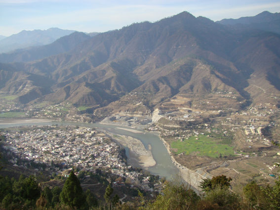 Main Part of Srinagar Garhwal from the Southern hill.